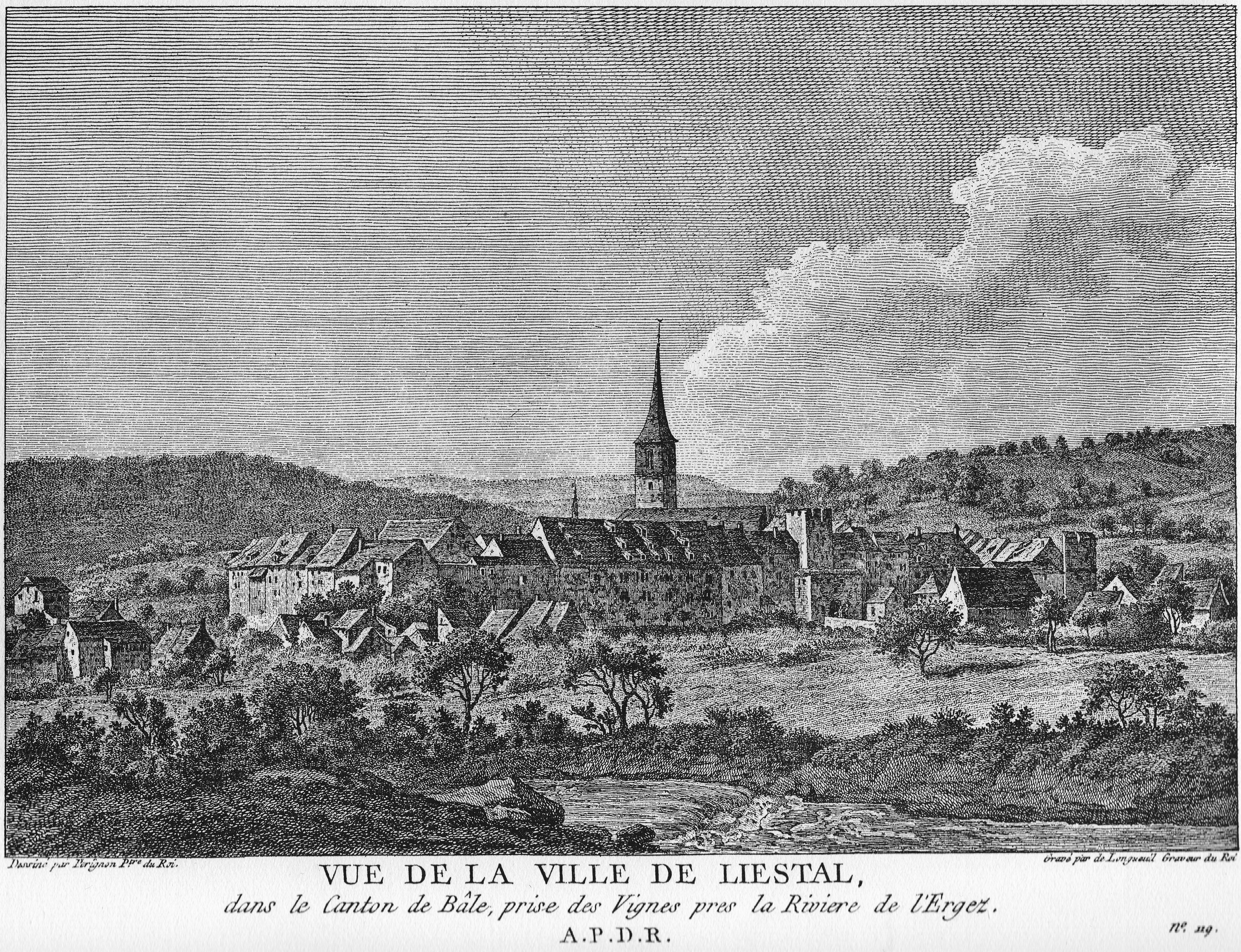 View of the Town of Liesthal in the Canton of Basle, taken from a Vineyard at the River Ergolz. Copper Engraving by Joſeph de Longueil after a Drawing by Nicolas Pérignon.